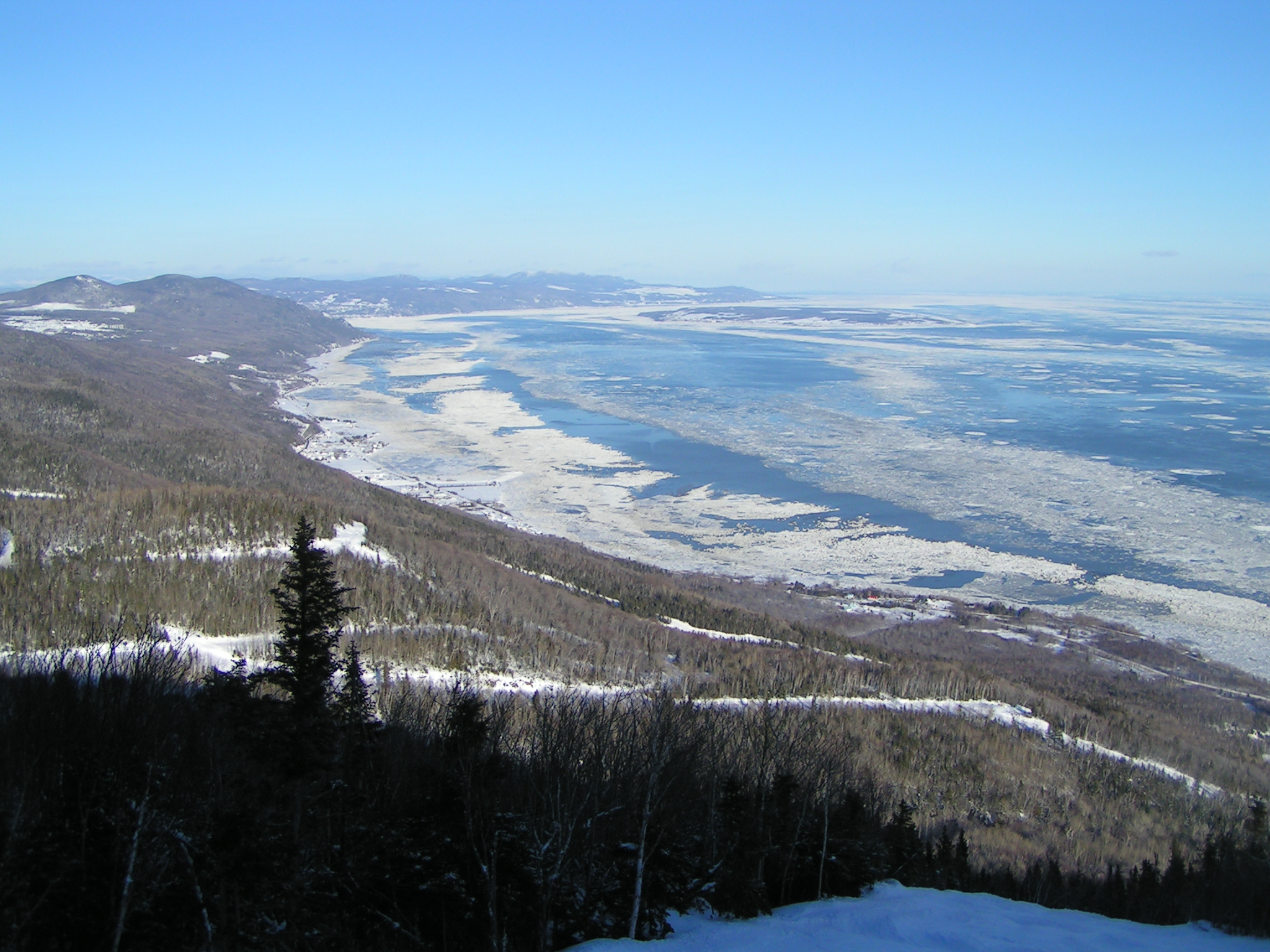 Description: Saint Lawrence River in winter from Le Massif near Baie-Saint-Paul, Quebec, Canada Source: Picture taken by Jan Zatko, December the 29th, 2004